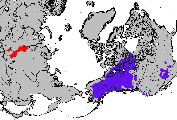 Map of Dené-Yeniseian language family in 17. century